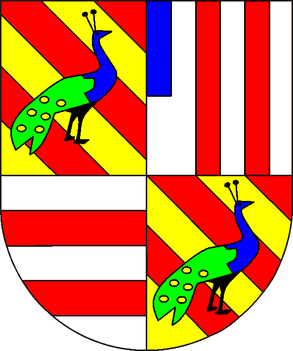 coat of arms of Wied-Runkel; 1,4: county of Wied; 2: lordship of Runkel; 3: county of Nieder-Isenburg